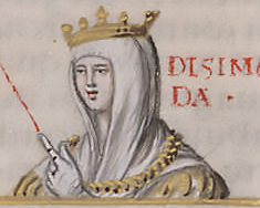 Adosinda of Asturias